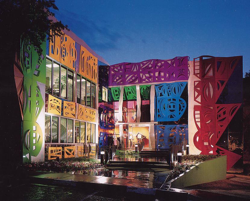 MADI Museum at night.